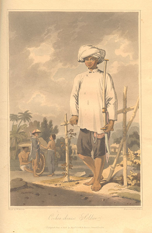 Tay Son Infantry